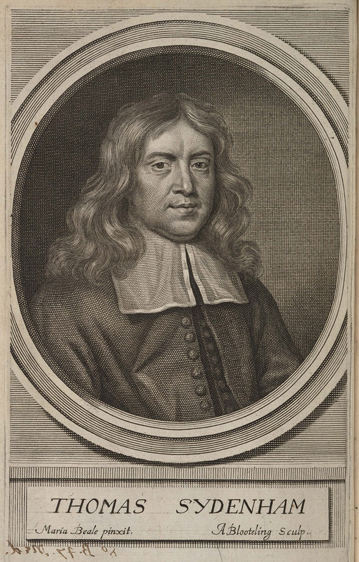 Portrait of Thomas Sydenham published in his book Observationes medicae, 1676